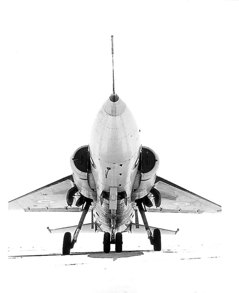 HA-300 Perspective